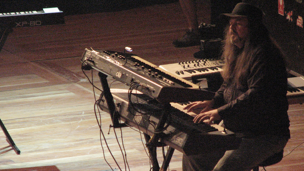 Jason Sawford (The Australian Pink Floyd Show) at Teatro Bourbon Country